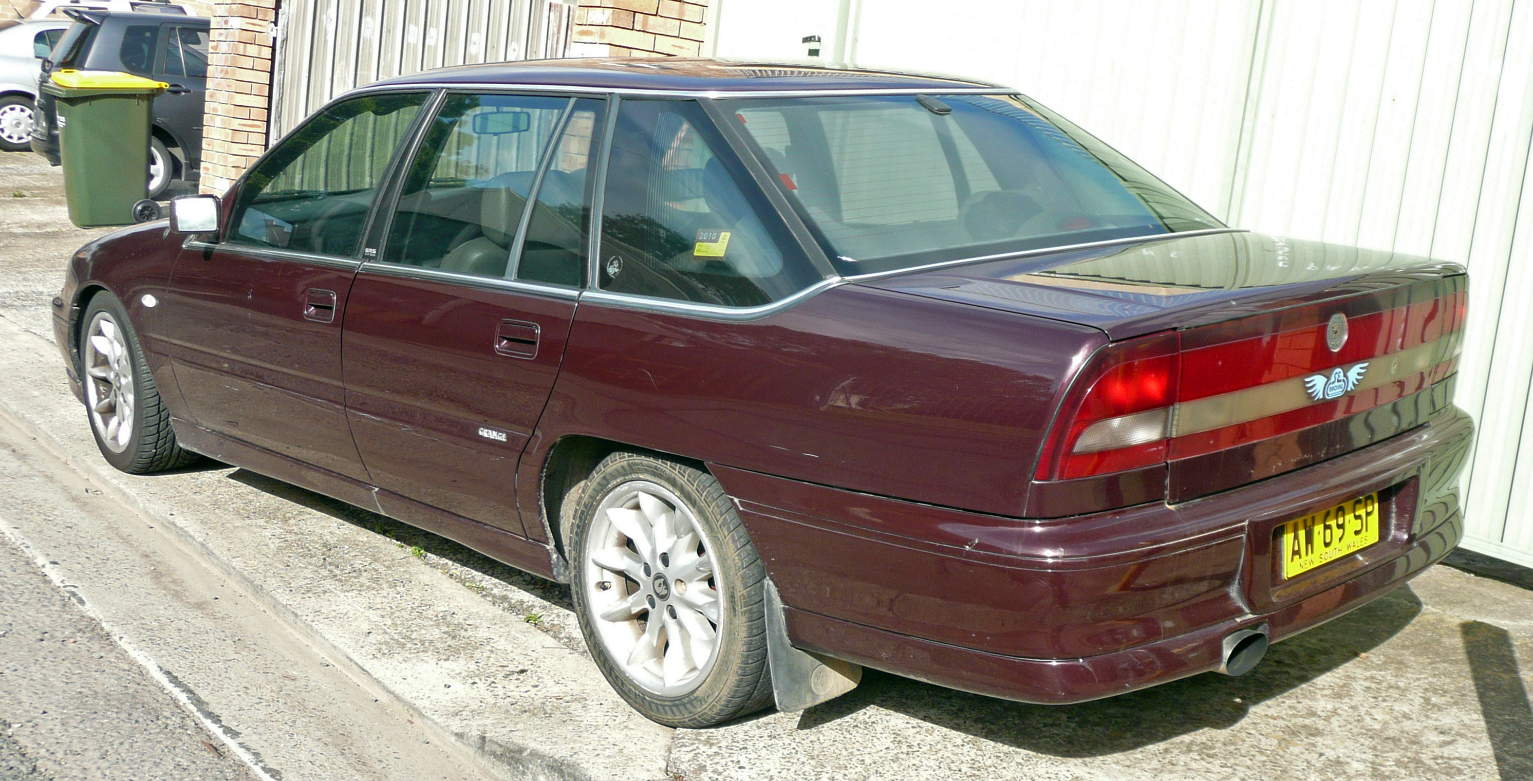 1998–1999 HSV Grange (VS III) sedan. Photographed in Sutherland, New South Wales, Australia.